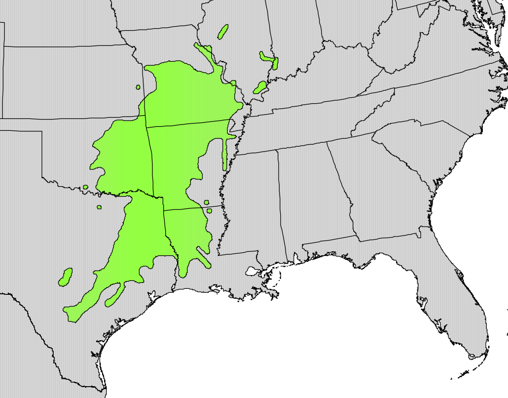 Range map of Carya texana — the black hickory tree. In the Juglandaceae or walnut family.